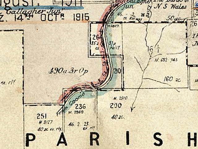 Map showing the origin of the 210-acre exclave of Parish of Majura into the Parish of Molonclo both in the County of Murray in New South Wales namely the portion marked 210. It was cut off from the rest of Majura (to the north) by the Australian Capital Territory (shaded light pink) containing Canberra in 1909